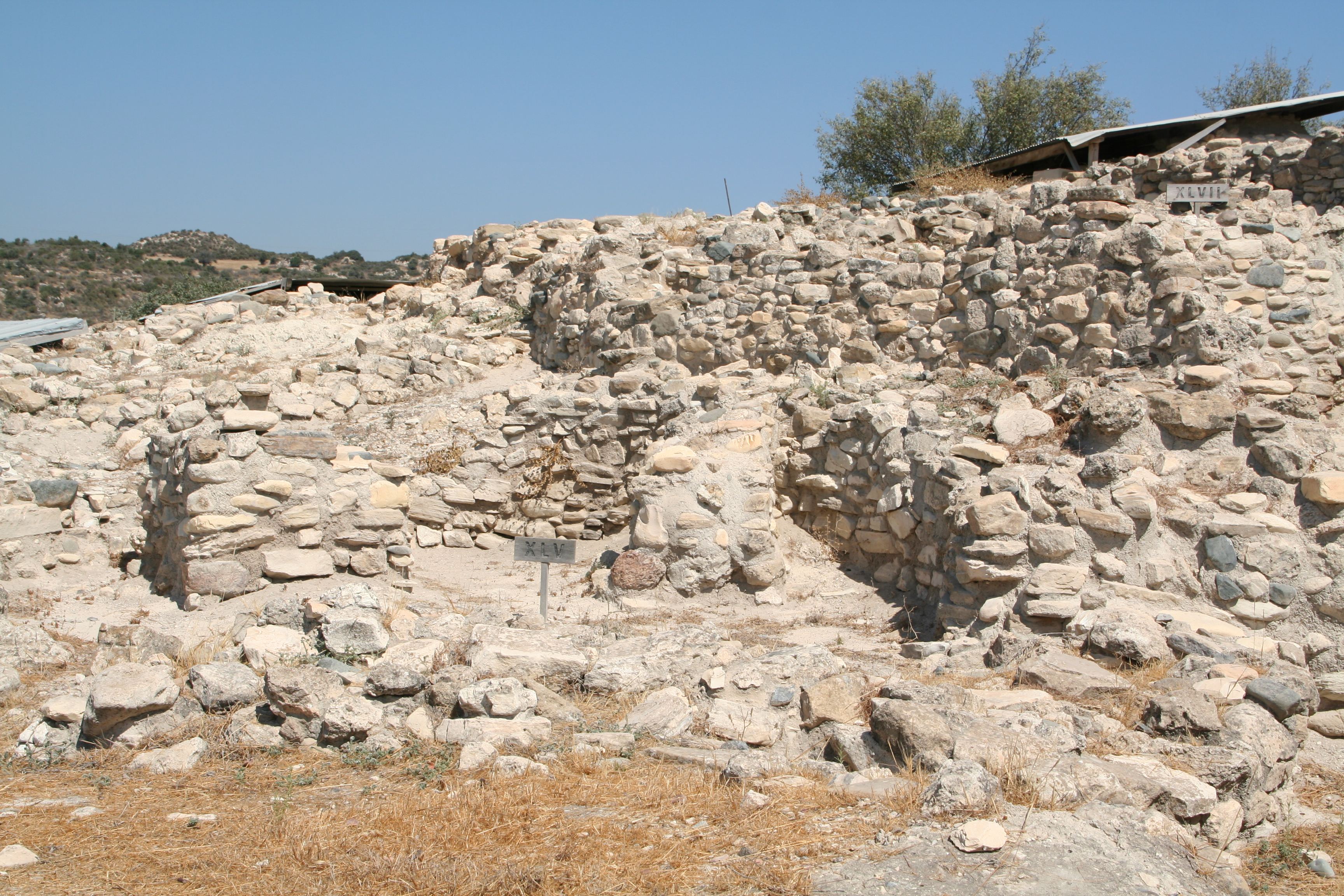 Unit XLV and XLVII Khirokitia, between 7000 and 5800 BC